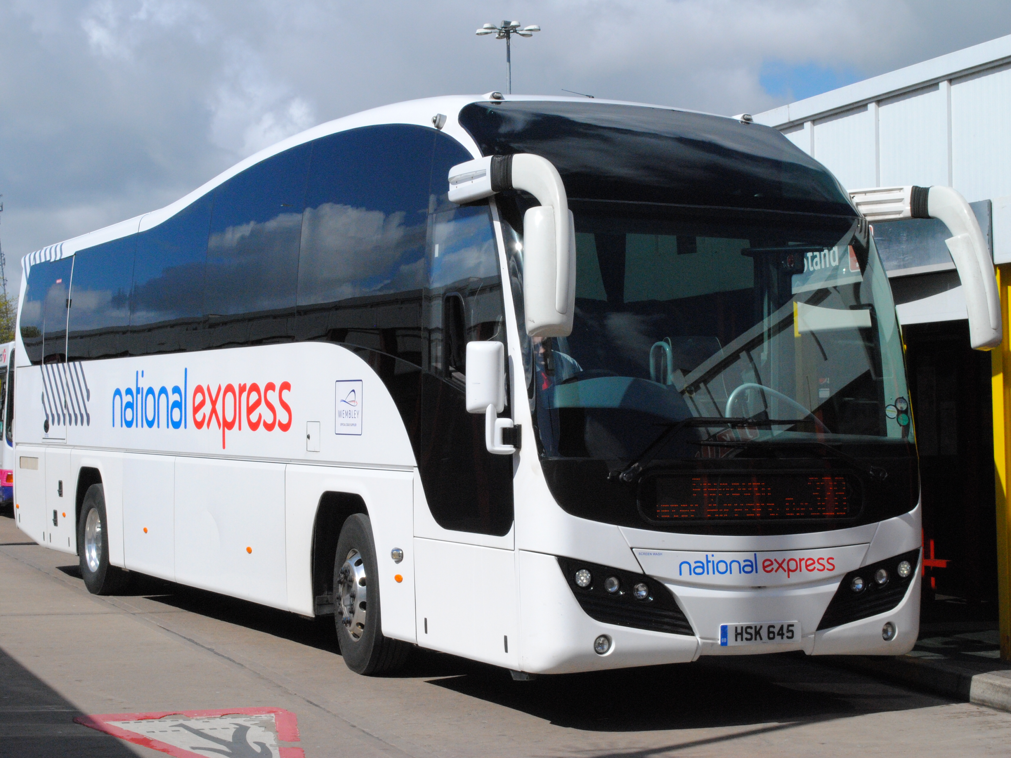 Volvo B9R Plaxton Elite. National Express 328 Blackpool - Plymouth route seen here in Bolton Bus Station